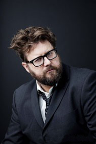 Martin Koolhoven, Dutch movie director and screenwriter